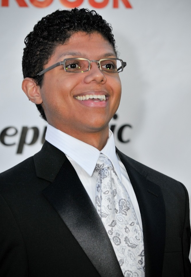 Tay Zonday at the 2009 Streamy awards